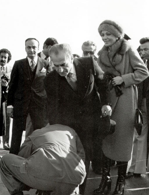 Shah and Shahbanu leaving Iran, Mehrabad International Airport - 16 January 1979